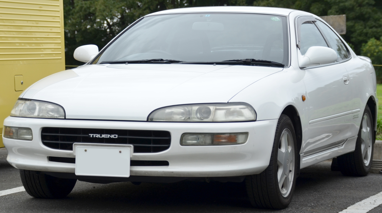 Toyota Sprinter Trueno GT APEX